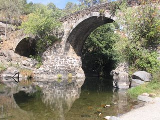 Bridge